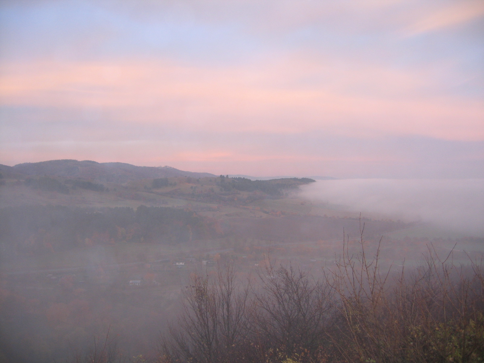 Early morning view from the site of Heimburg Castle looking west over parts of the village towards the Harz Mountains (and the "Ziegenberg bei Heimburg" nature reserve); Blankenburg, Saxony-Anhalt (Germany)